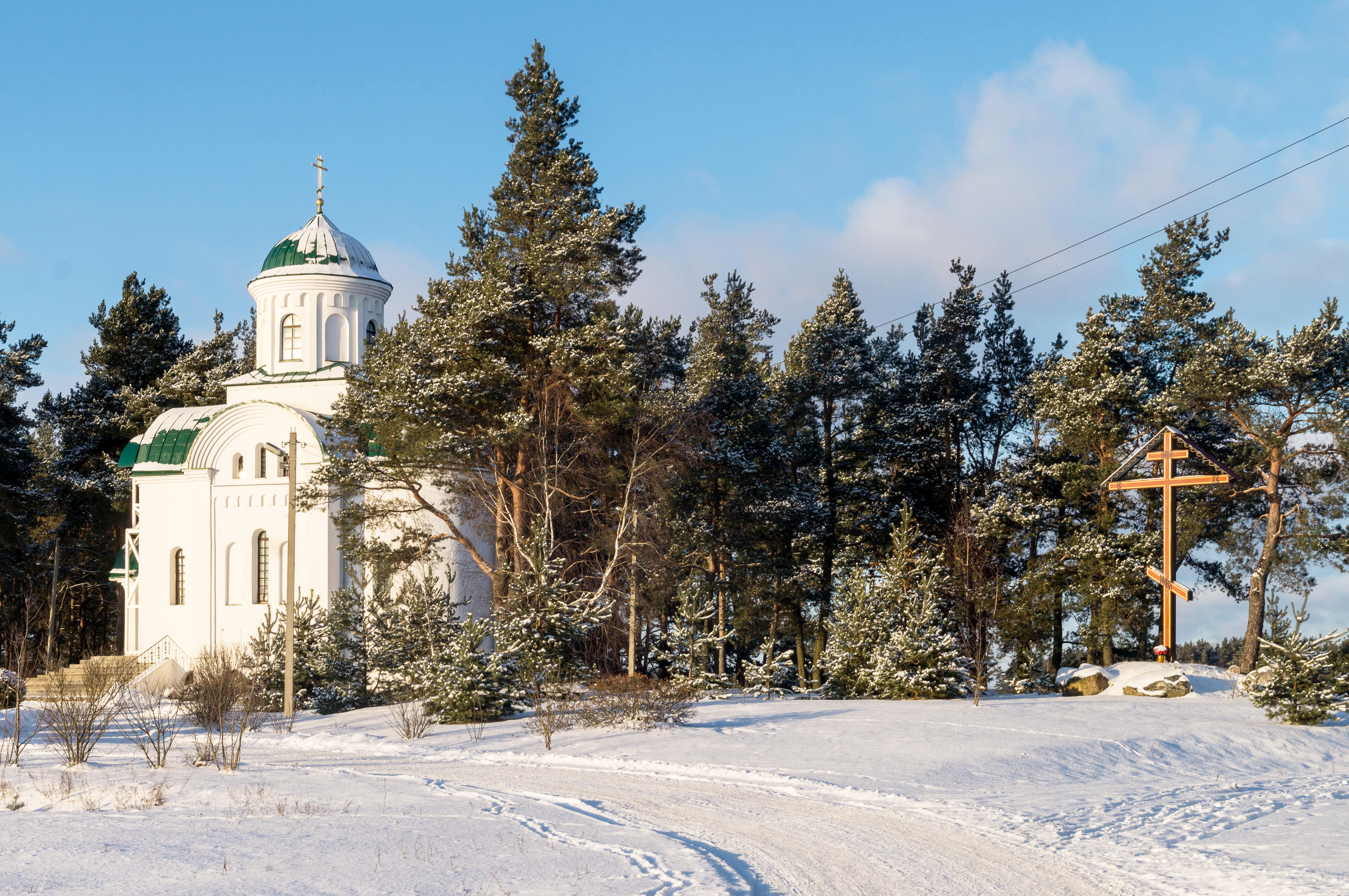 Church of the Holy Patryarch Tikhan (Vileika) 2